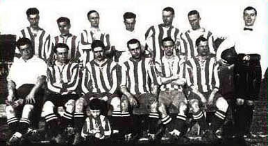 Club Porteño of Buenos Aires, Argentina, champion in 1912.